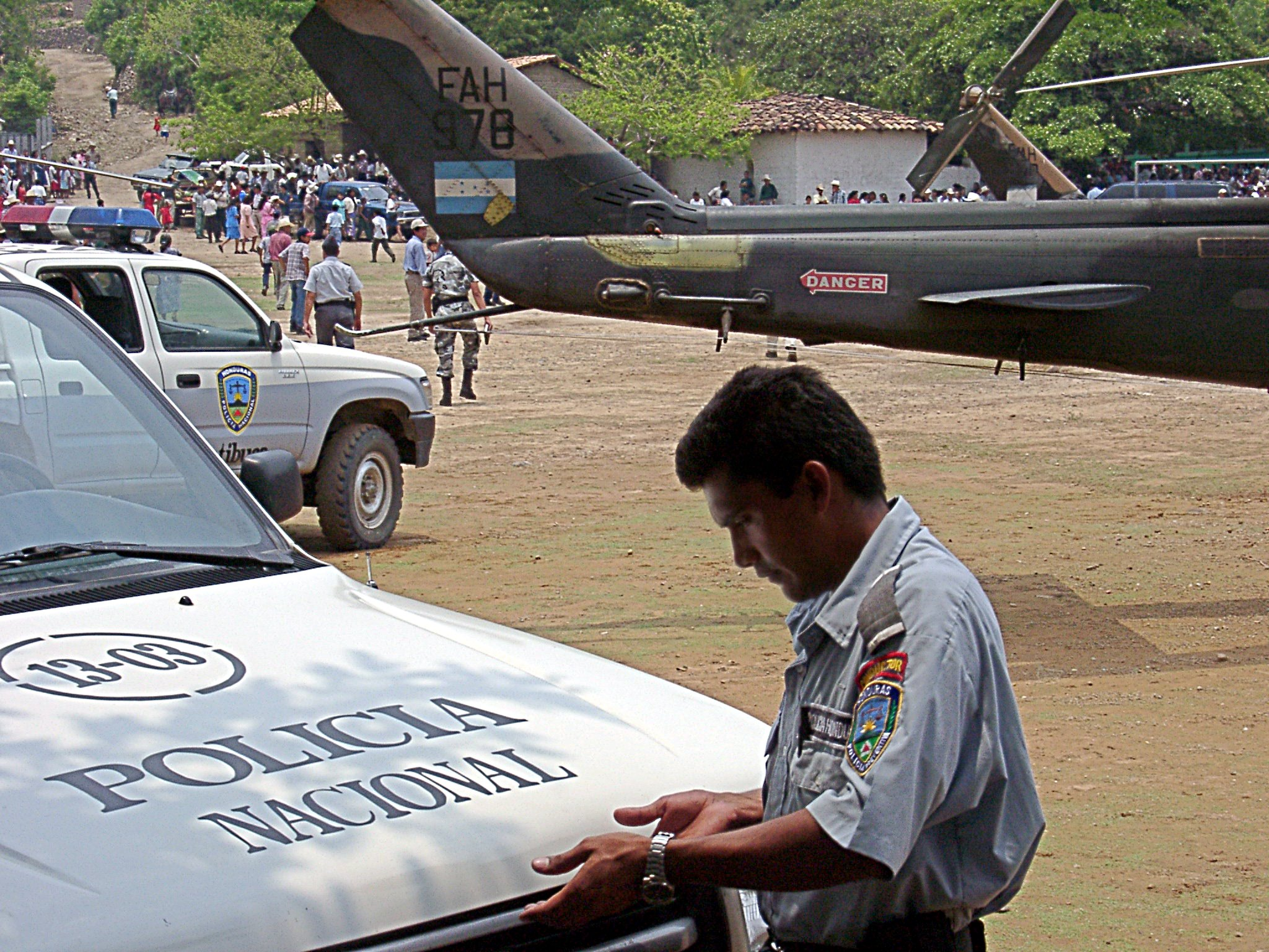 San Francisco Lempira 2000 Discription: A rare day of helicopters and police cars. Camera Info: CASIO QV-3000EX, shot 2000:05:04 11:27:25Z, F-stop 8.0, Exposure 1/457, Focal Length 16.1mm, Focus 254 m. Contact creator at